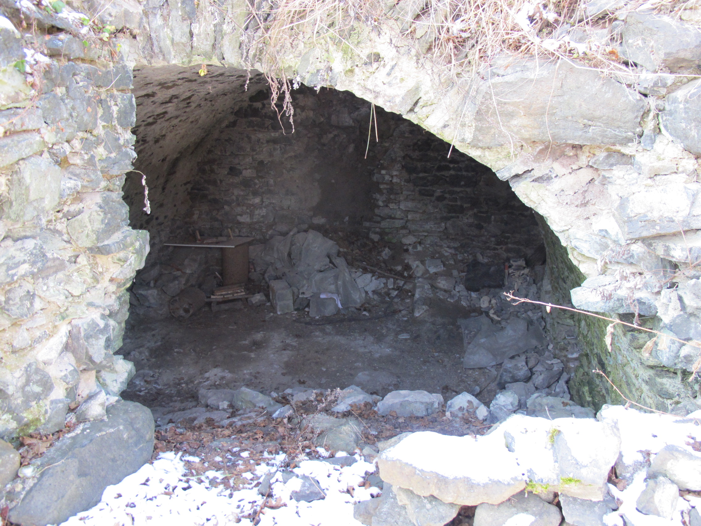 Křečov, Castle in the Czech Republic, Cellar Česky: Křečov - sklep